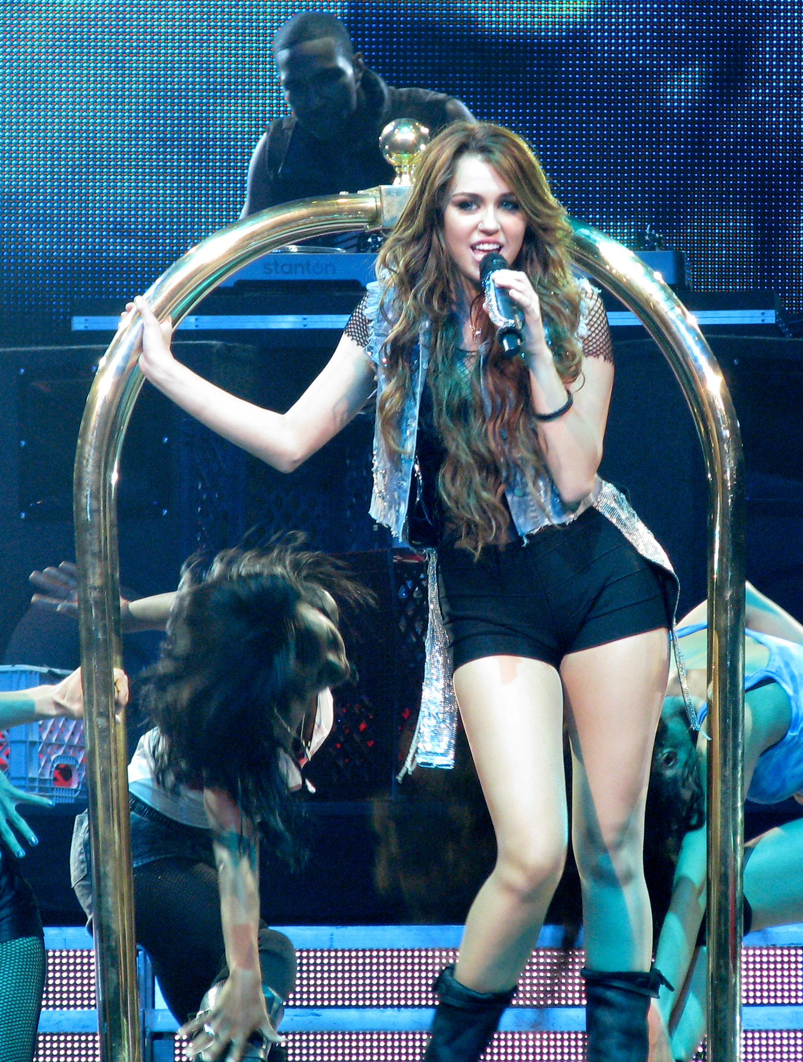 Miley Cyrus singing.